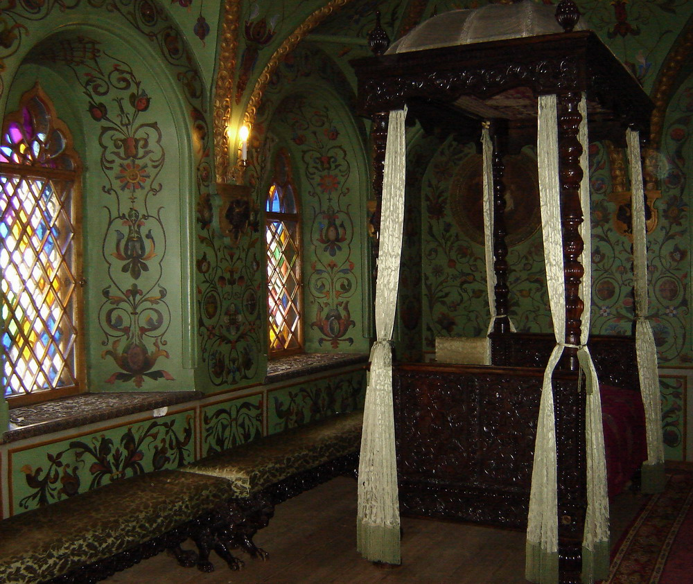 Teremnoy palace interior. Moscow Kremlin, Russia.